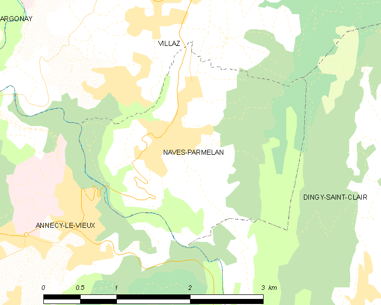 Map of French municipality Nâves-Parmelan